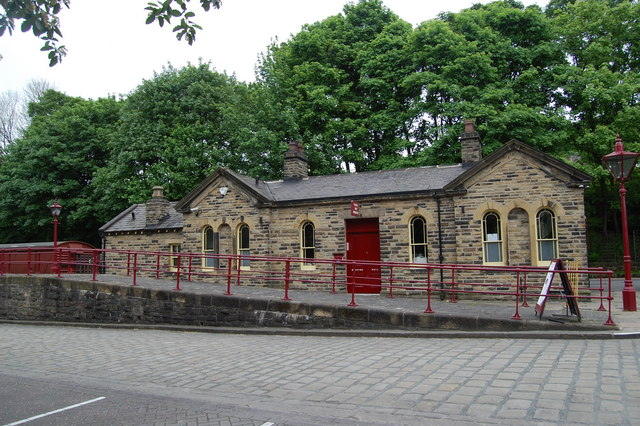 Ingrow Station